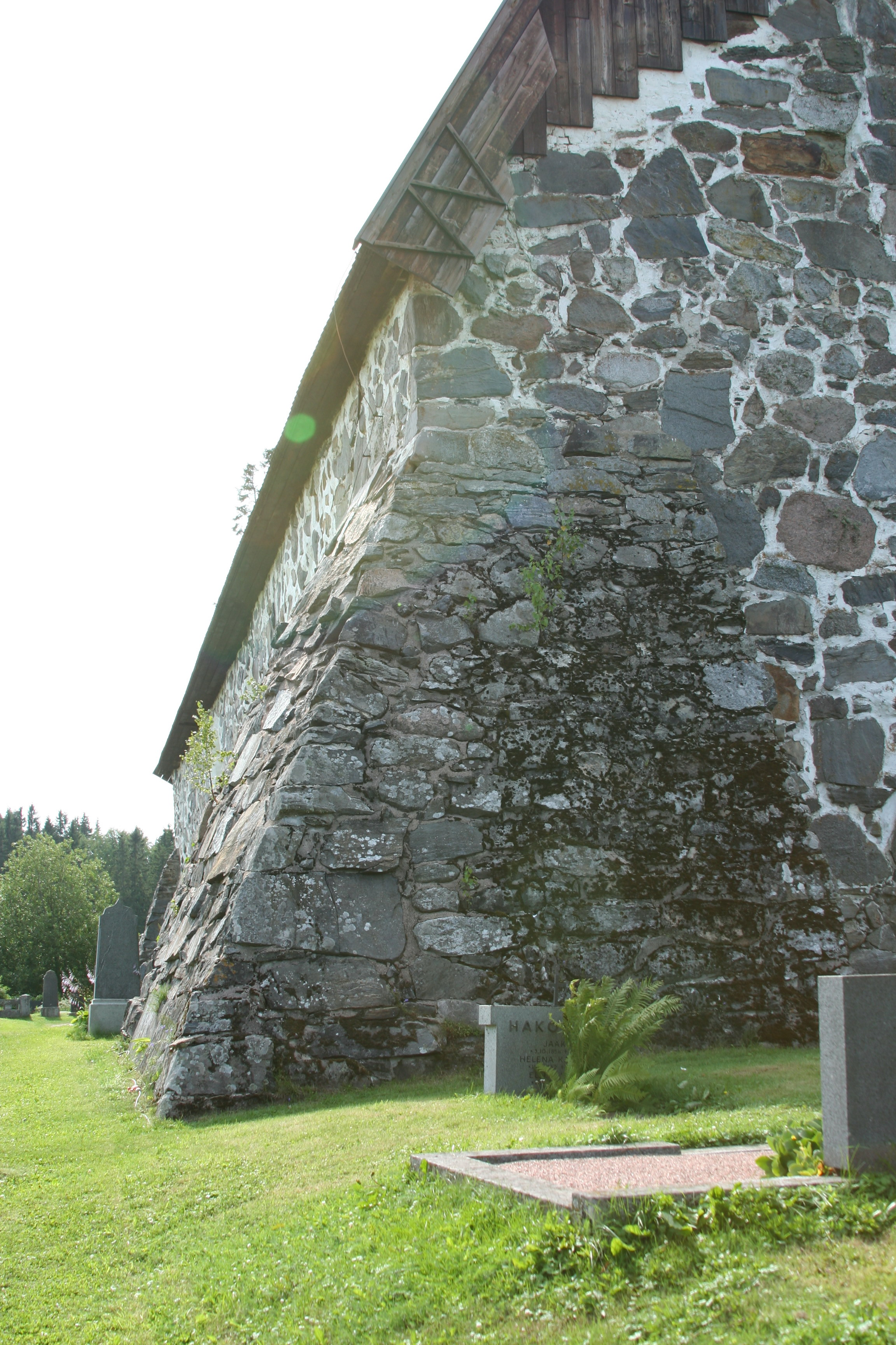 Sastamala old church, Sastamala, Finland. Additional support.